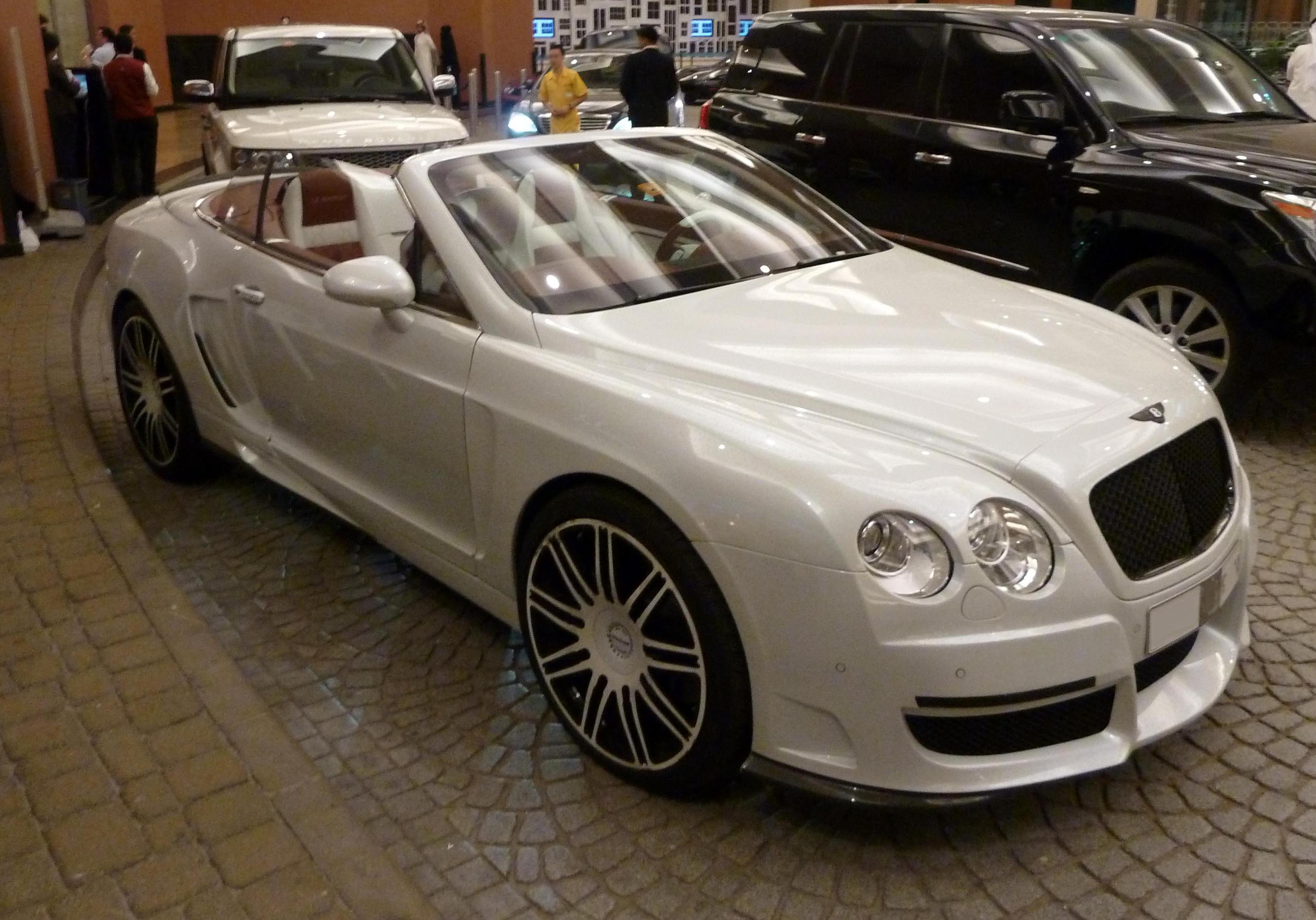 Mansory Bentley Continental GTC at the Mall of the Emirates, Dubai.